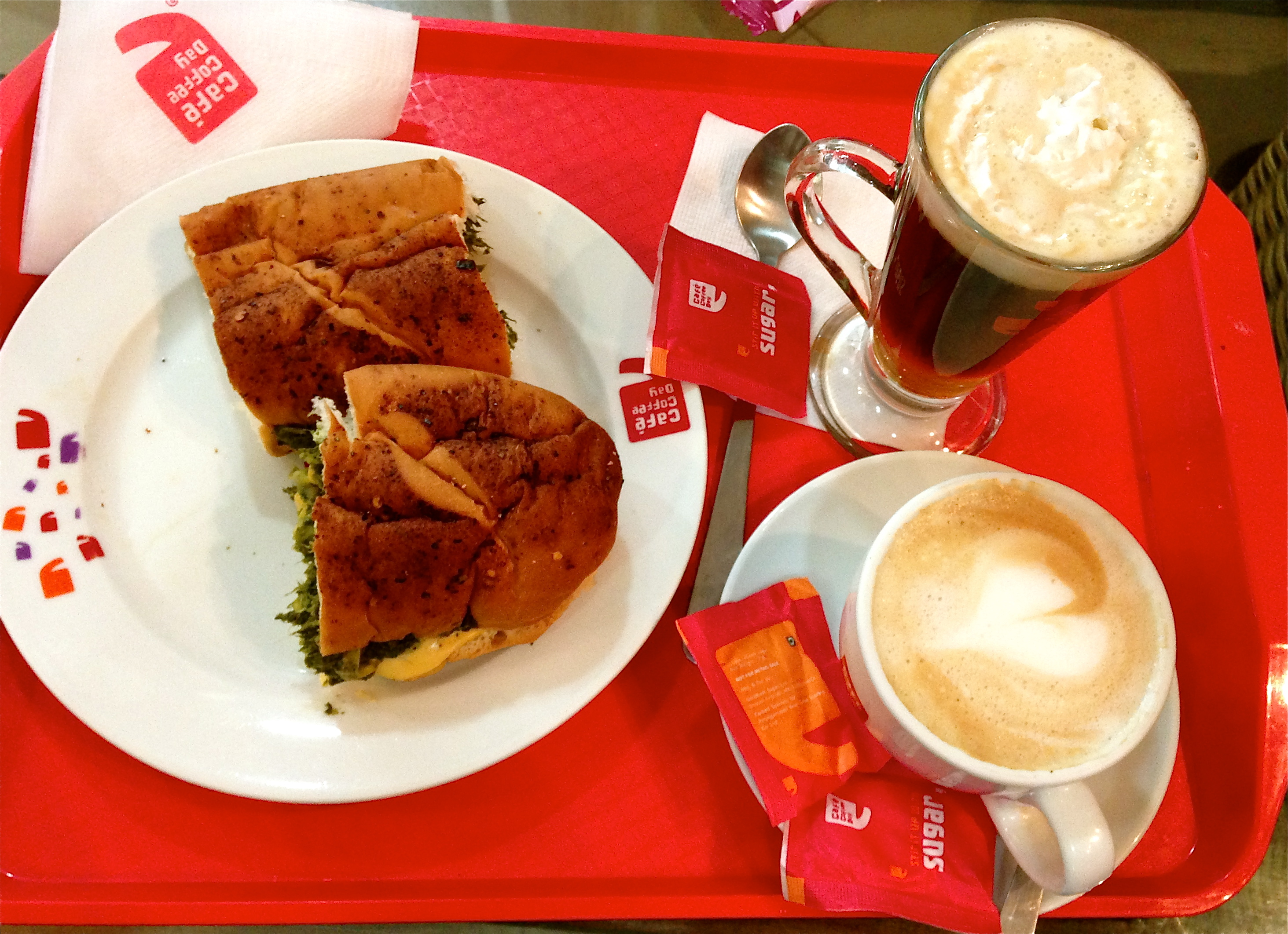 Sandwich, Coffee & Tea served at Cafe Coffee Day